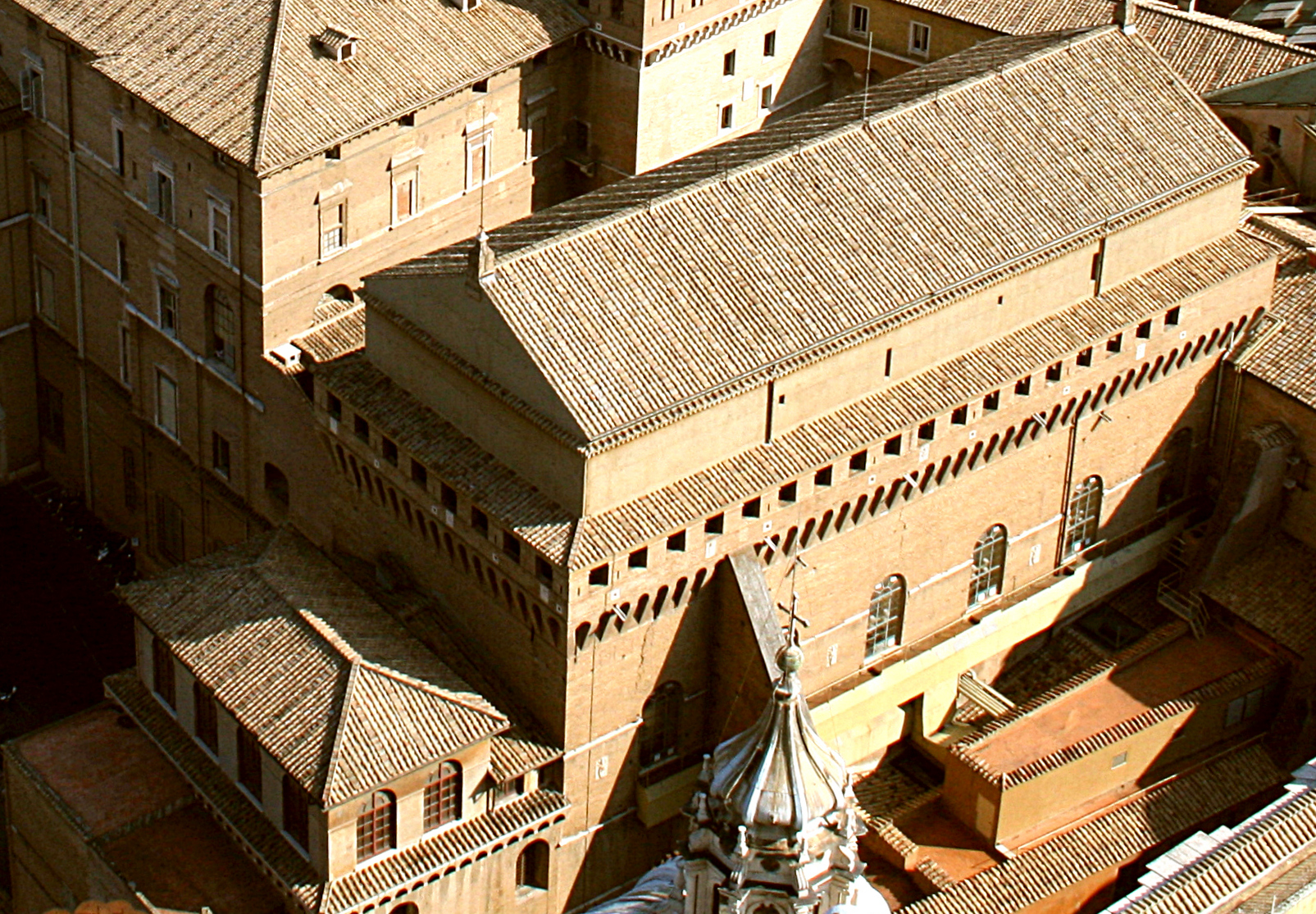 Chapelle Sixtine crop